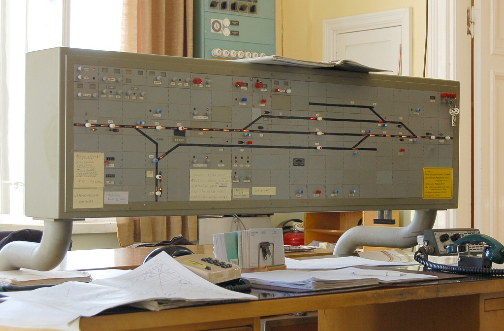 A control board of Siemens DrS electrical signalling apparatus at Murtomäki station, Finland. This relay-based signalling logic system was installed in 1953.